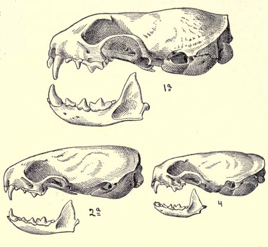 Skulls of Mustela frenata (top), Mustela erminea (bottom left) and Mustela nivalis (bottom right)